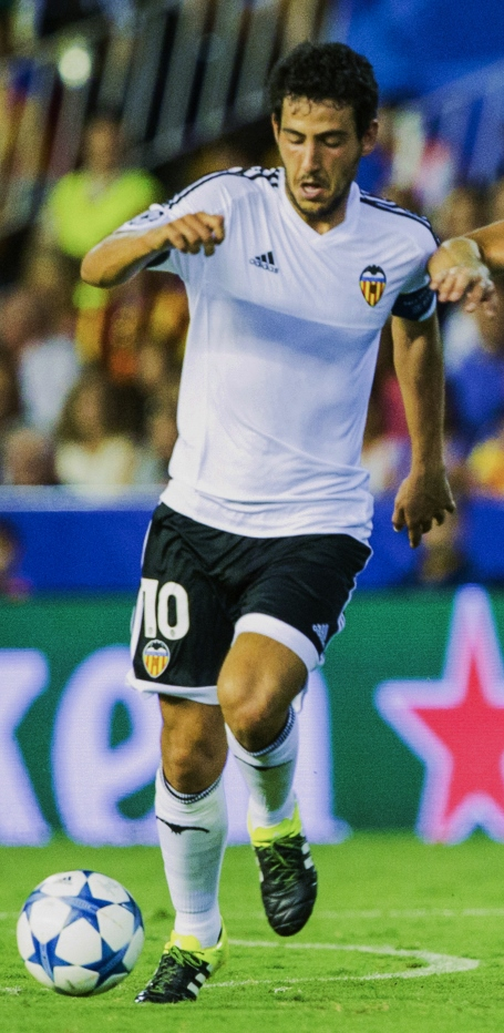 Dani Parejo